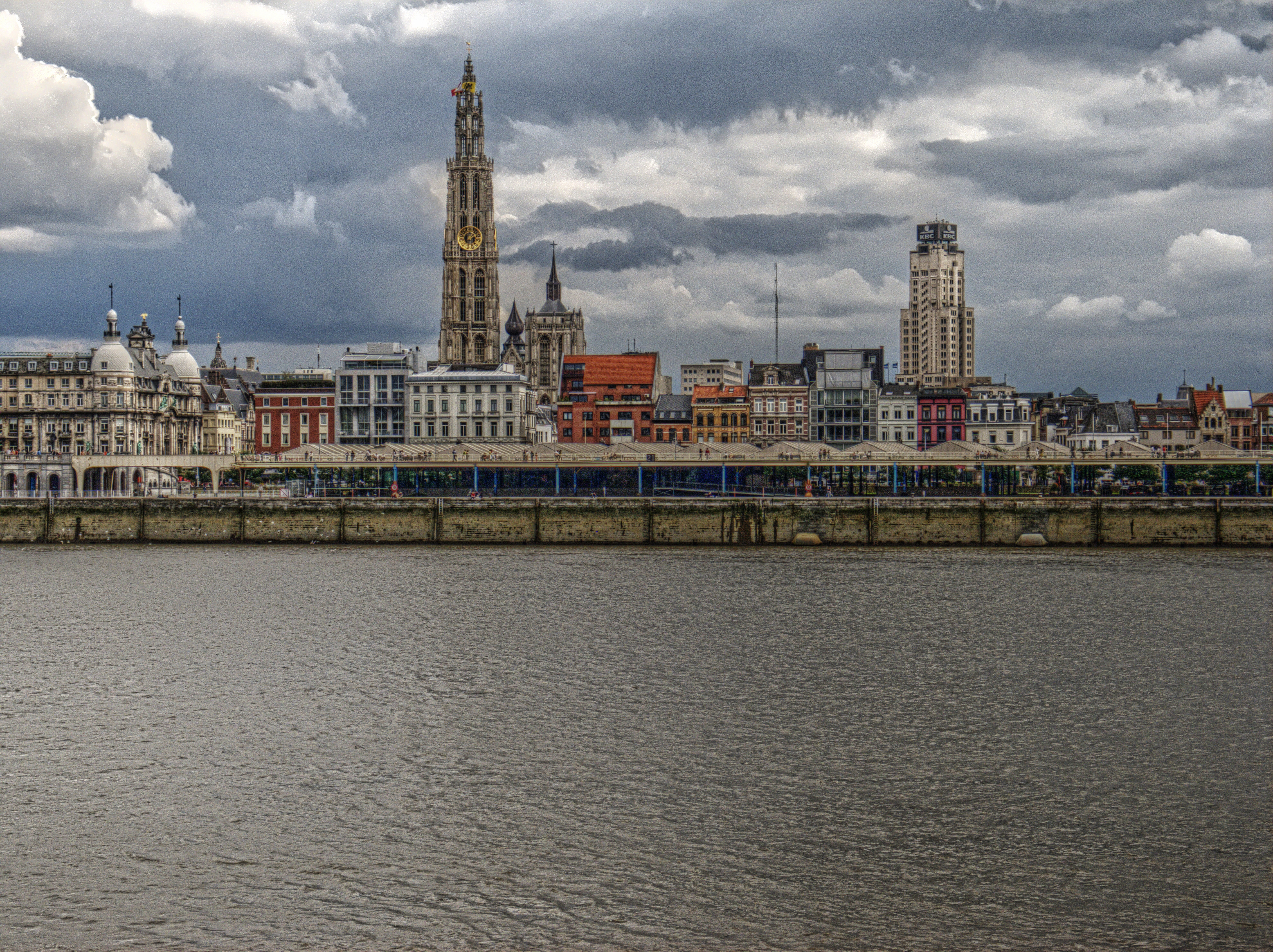 View of the city of Antwerp from across the opposite bank of the Scheldt river.